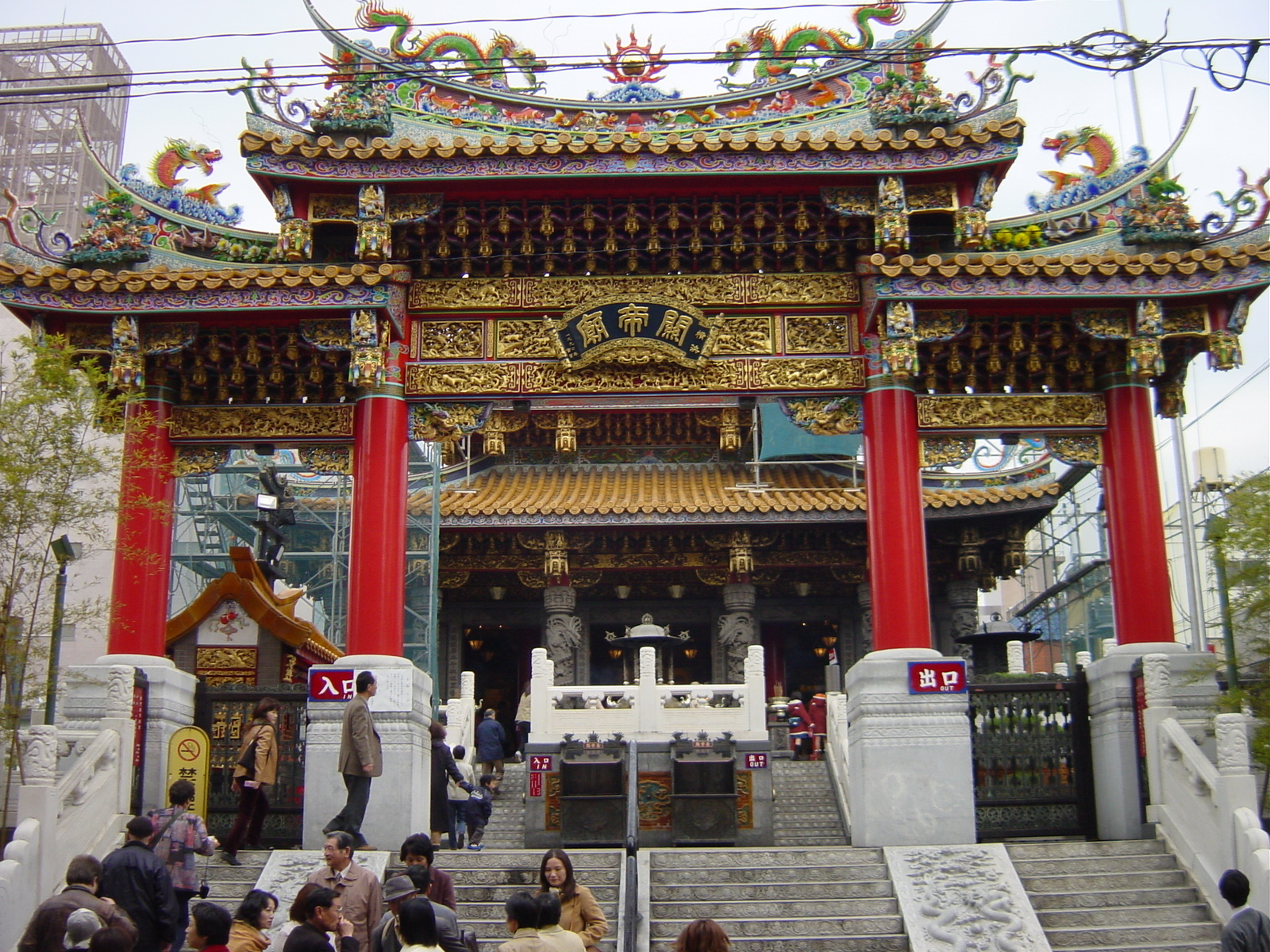 Mausoleum of Guan Yu (關帝廟), Chinatown, Yokohama, Japan